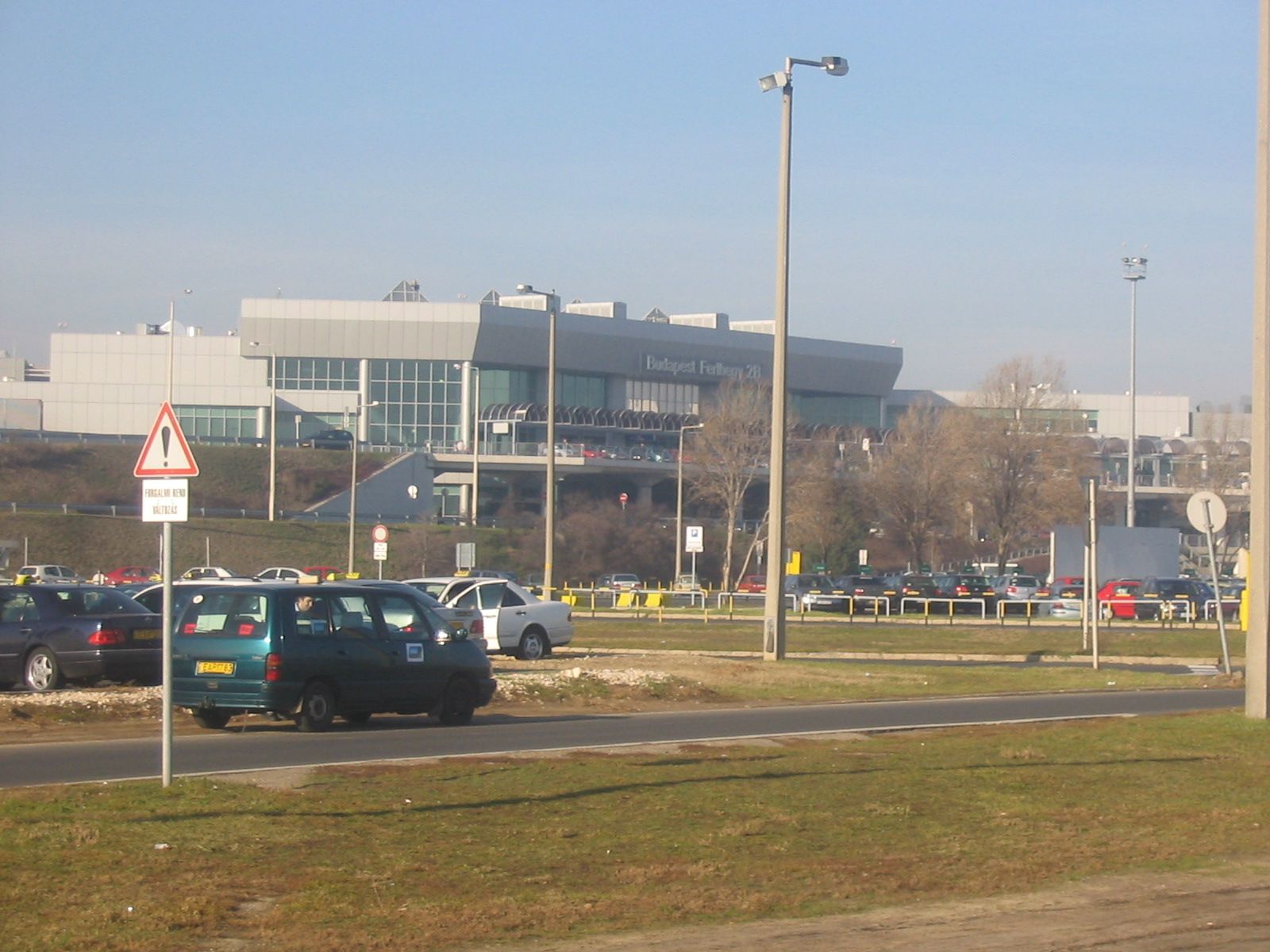 Budapest Ferenc Liszt International Airport